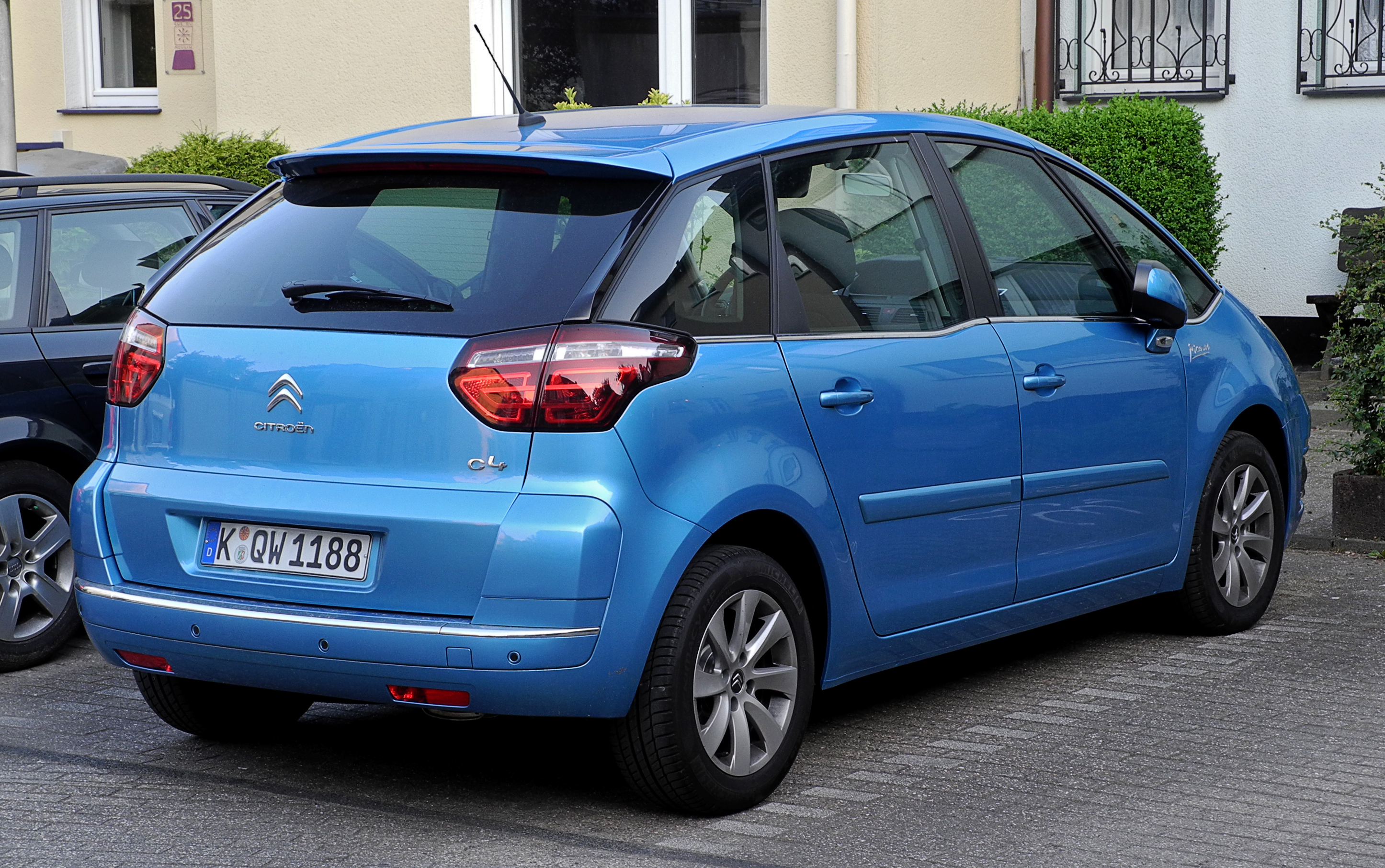 Citroën C4 Picasso (Facelift) — Pressefahrzeug